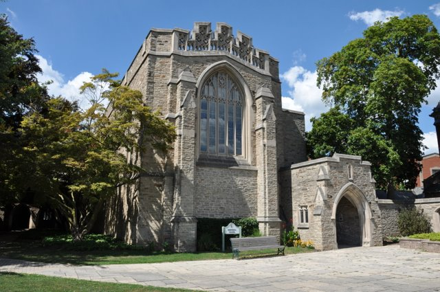 Ridley College Memorial Chapel.